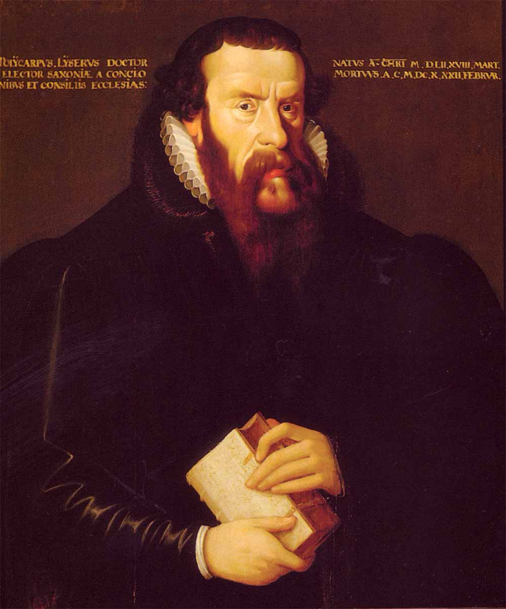 Portrait oil-painting (on wood-board) of Polykarp Leyser the Older